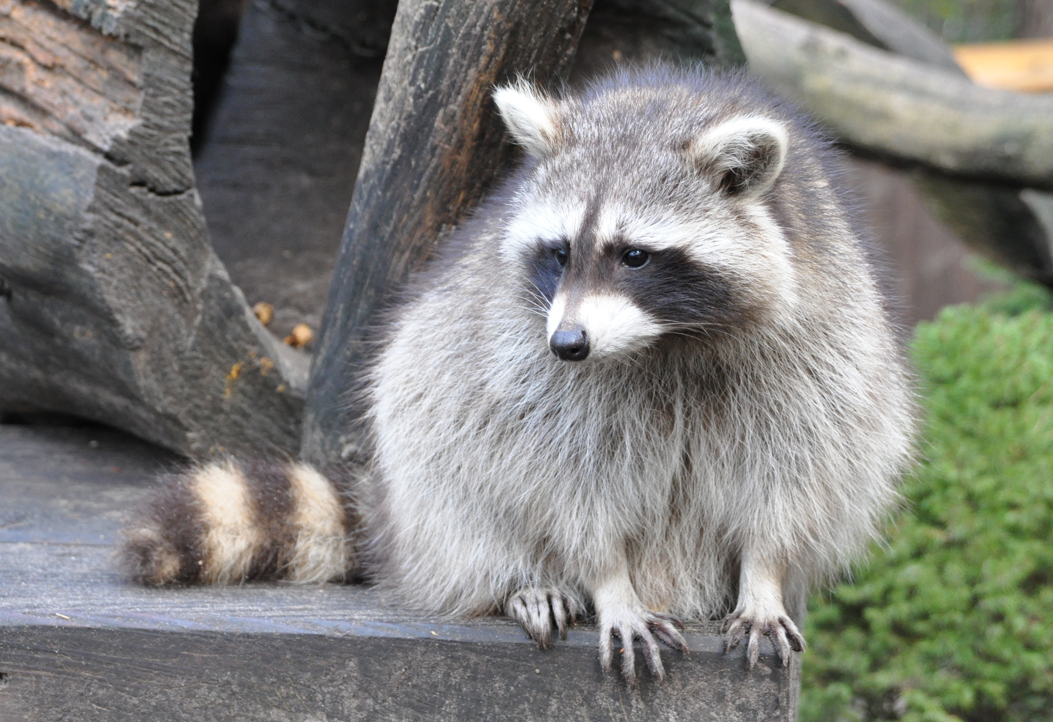 Raccoon (Procyon lotor) in the Lüneburg Heath wildlife park, Germany.